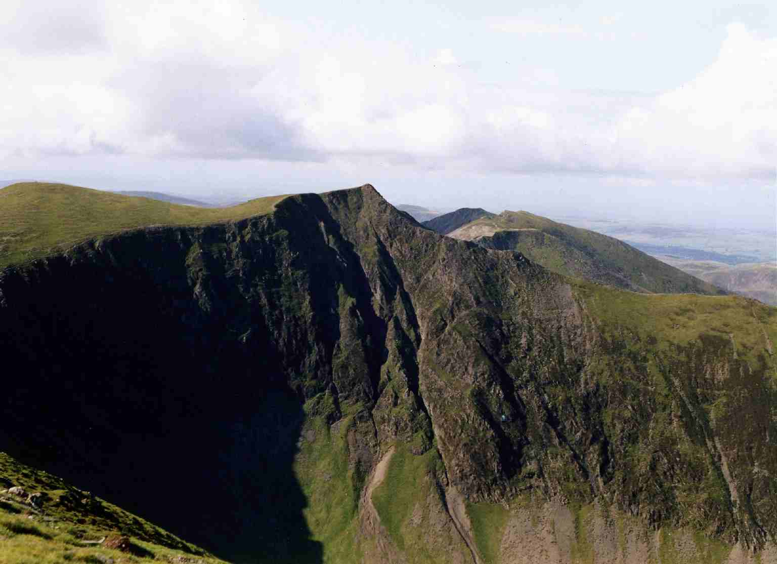 Hopegill Head seen from Grisedale Pike. Hobcarton Crag is beneath the fell. The grassy hill on the left is Sand Hill. Personal photograph taken by Mick Knapton in May 1989